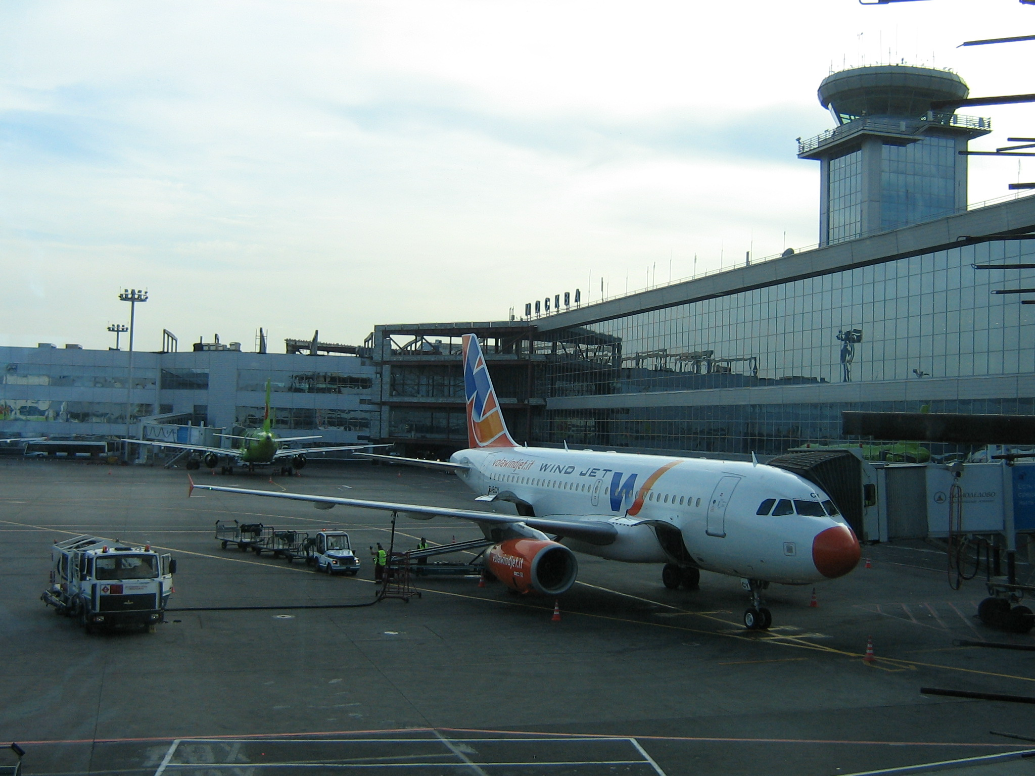 Wind Jet A319 at Domodedovo International Airport, Moscow, June 2010.